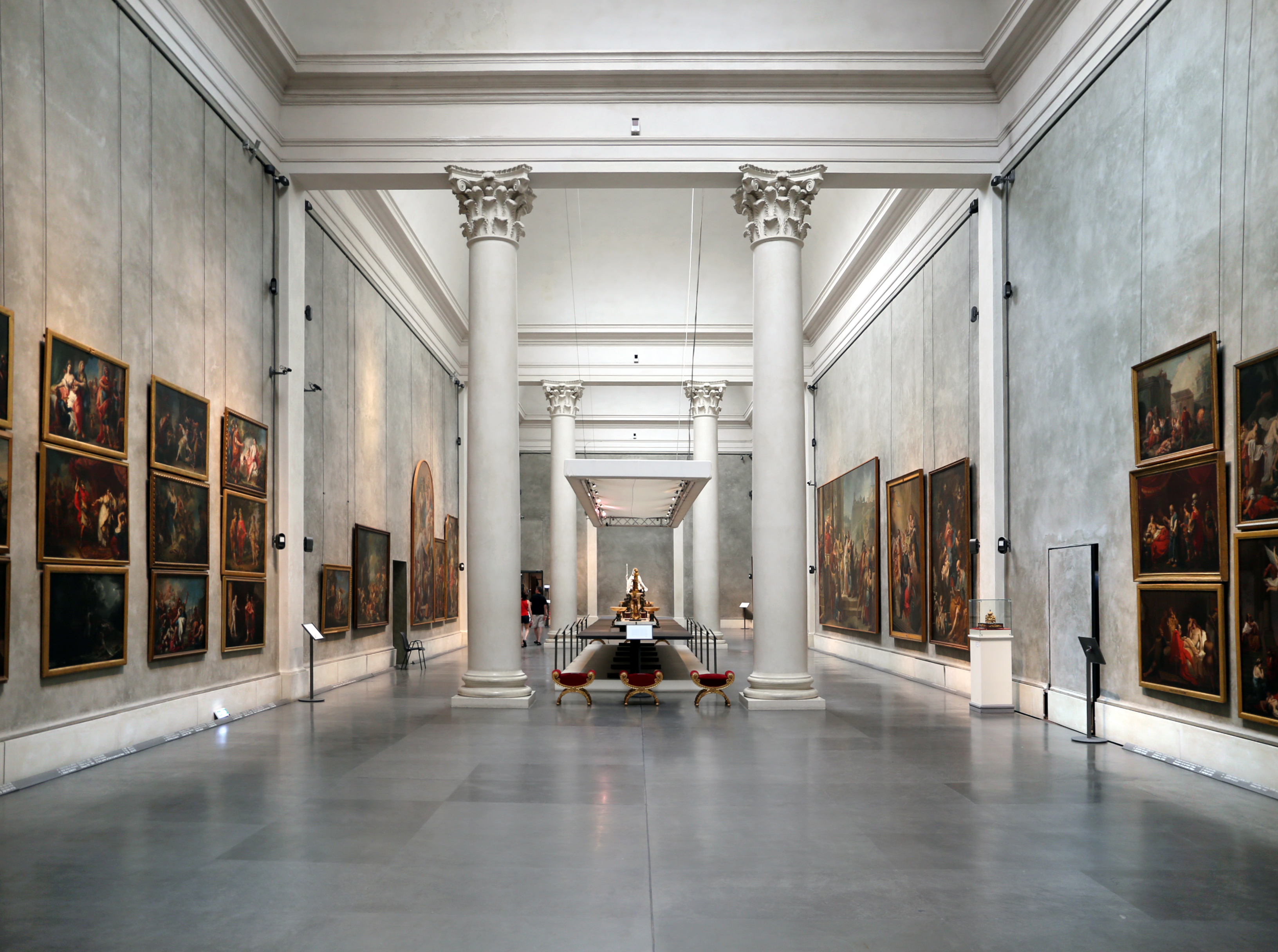 National Gallery of Parma, Italy. One of the 19th-century Halls, diplaying items from the Bourbon and the Farnese collections This is a photo of a monument which is part of cultural heritage of Italy.